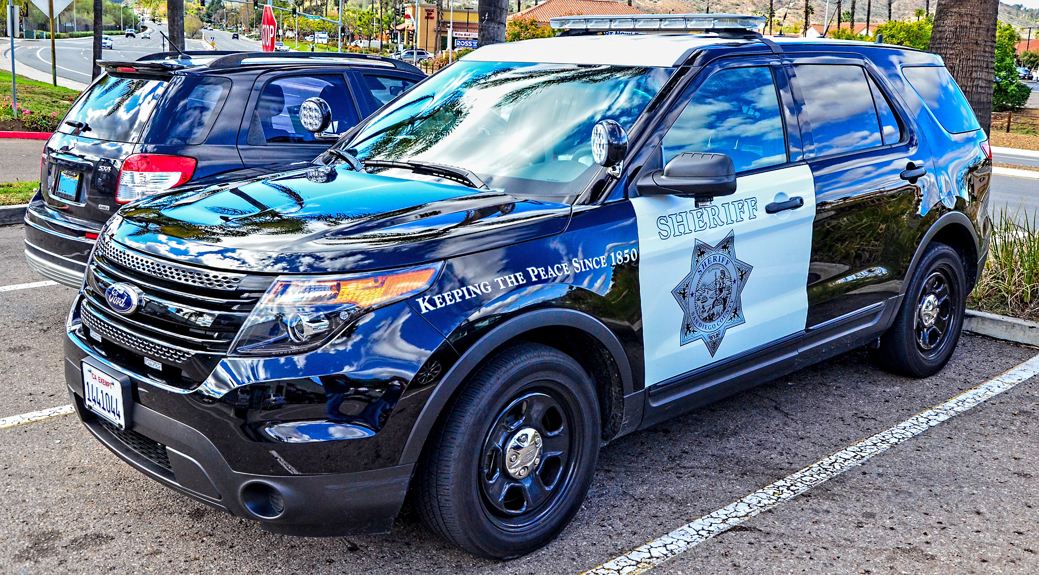 TDelCoro December 14, 2015